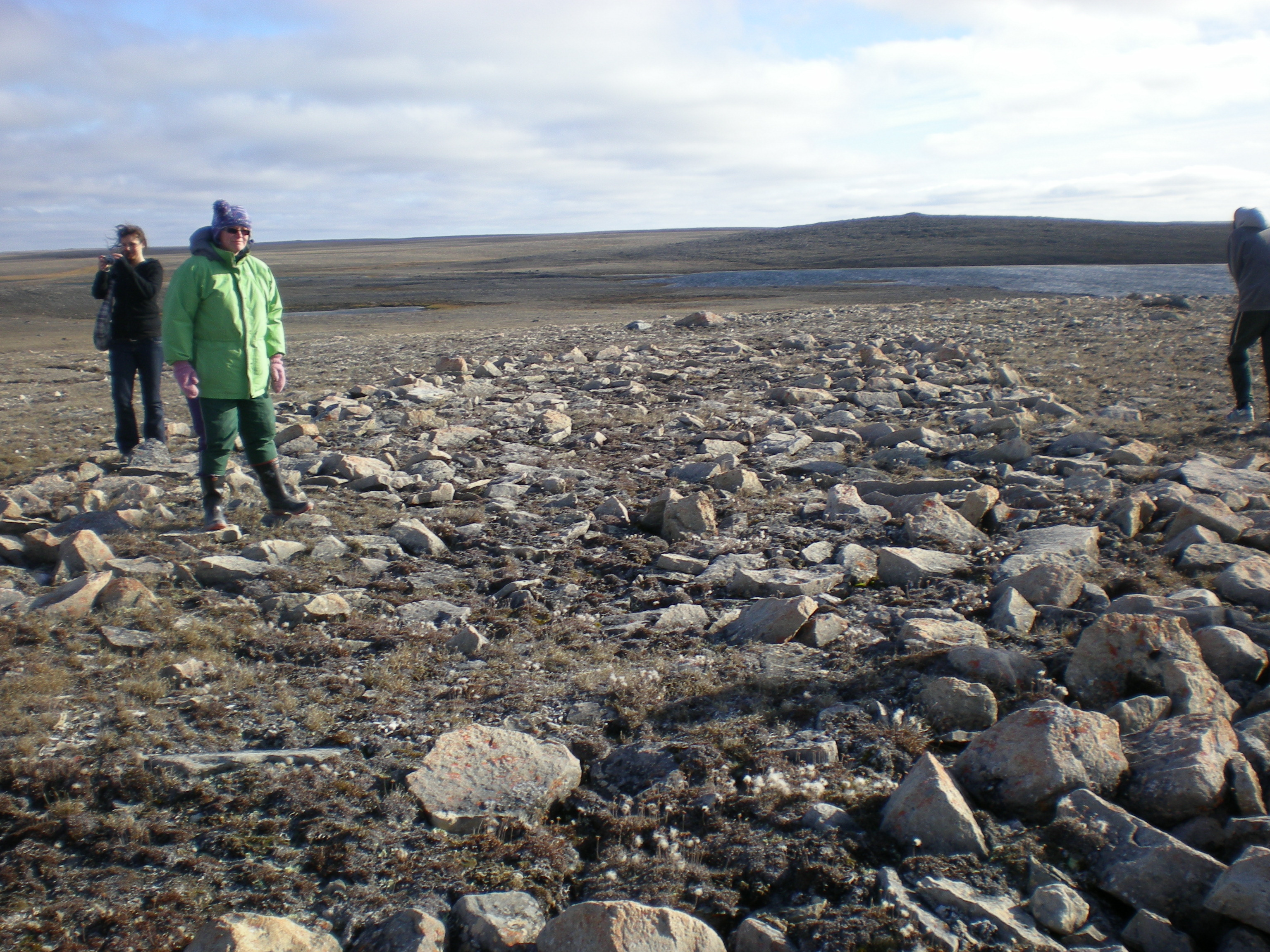 A Dorset culture stone longhouse near Cambridge Bay, Nunavut, Canada. The house was rediscovered by accident when a group returning from another archaeological site flew over the longhouse and noticed it.